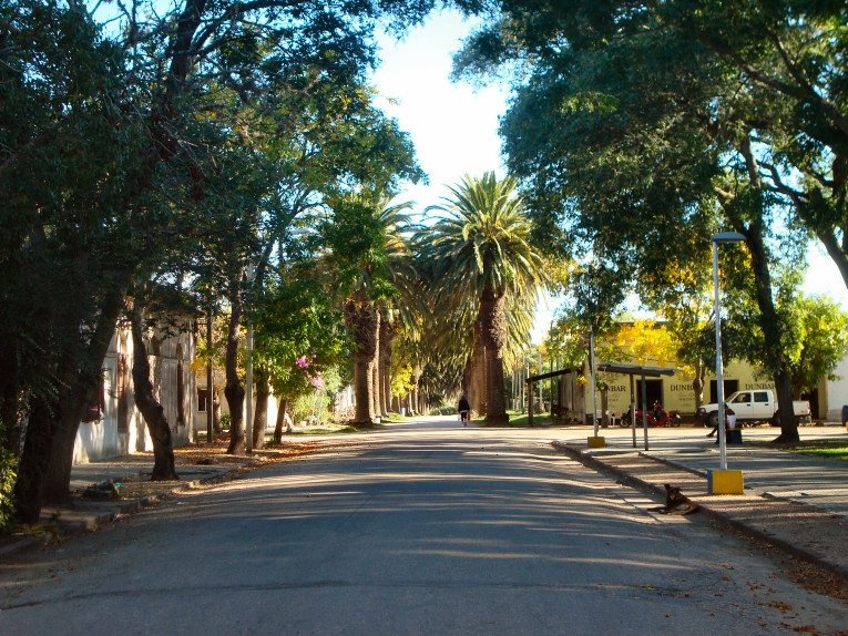 Marcelino-Moreira street, at the south end of the central square of San Antonio, Canelones, Uruguay.